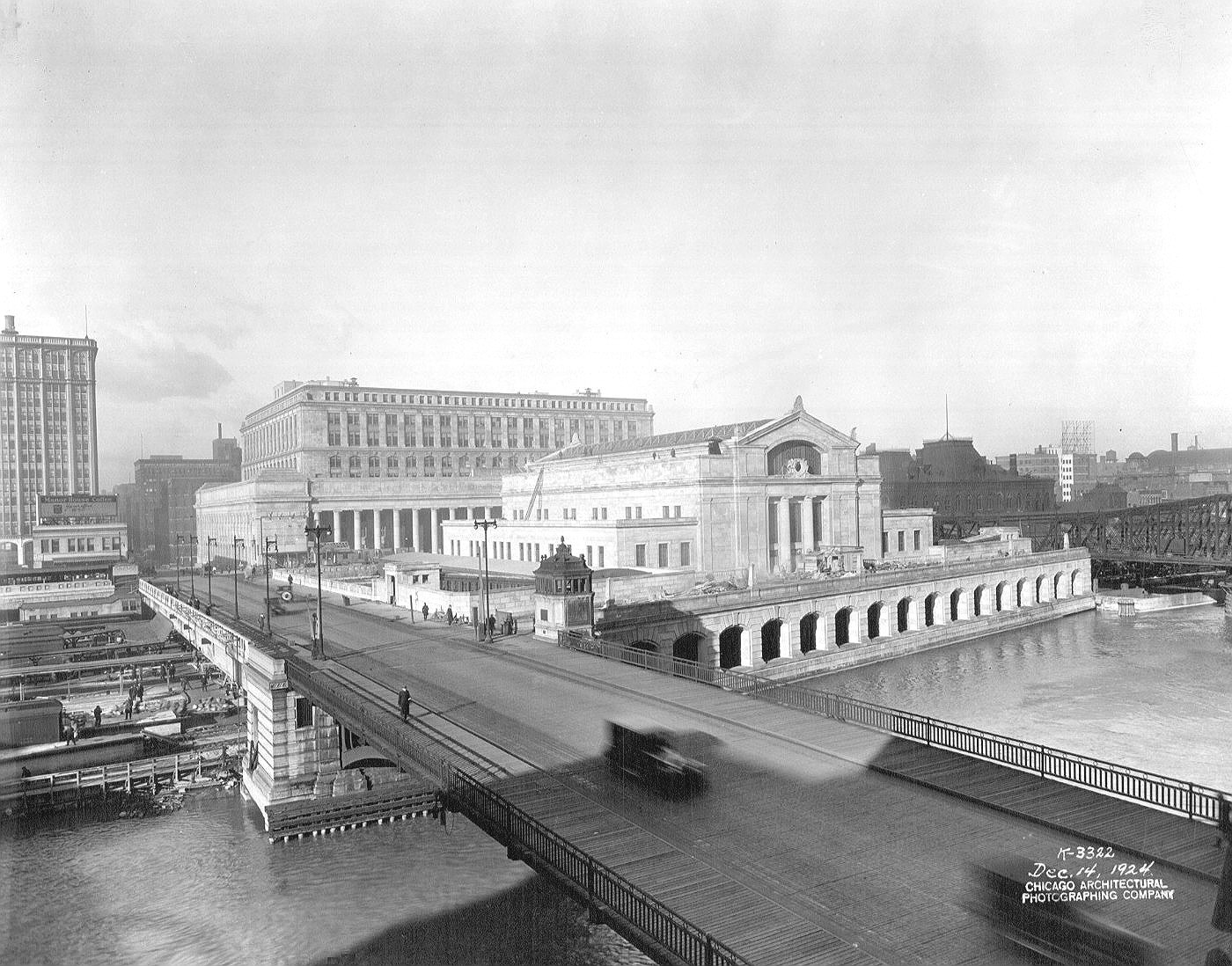 Photo of the new Union Station in Chicago taken in 1924. This was shortly before it opened in 1925. The item has no copyright markings on it as can be seen in the links above.